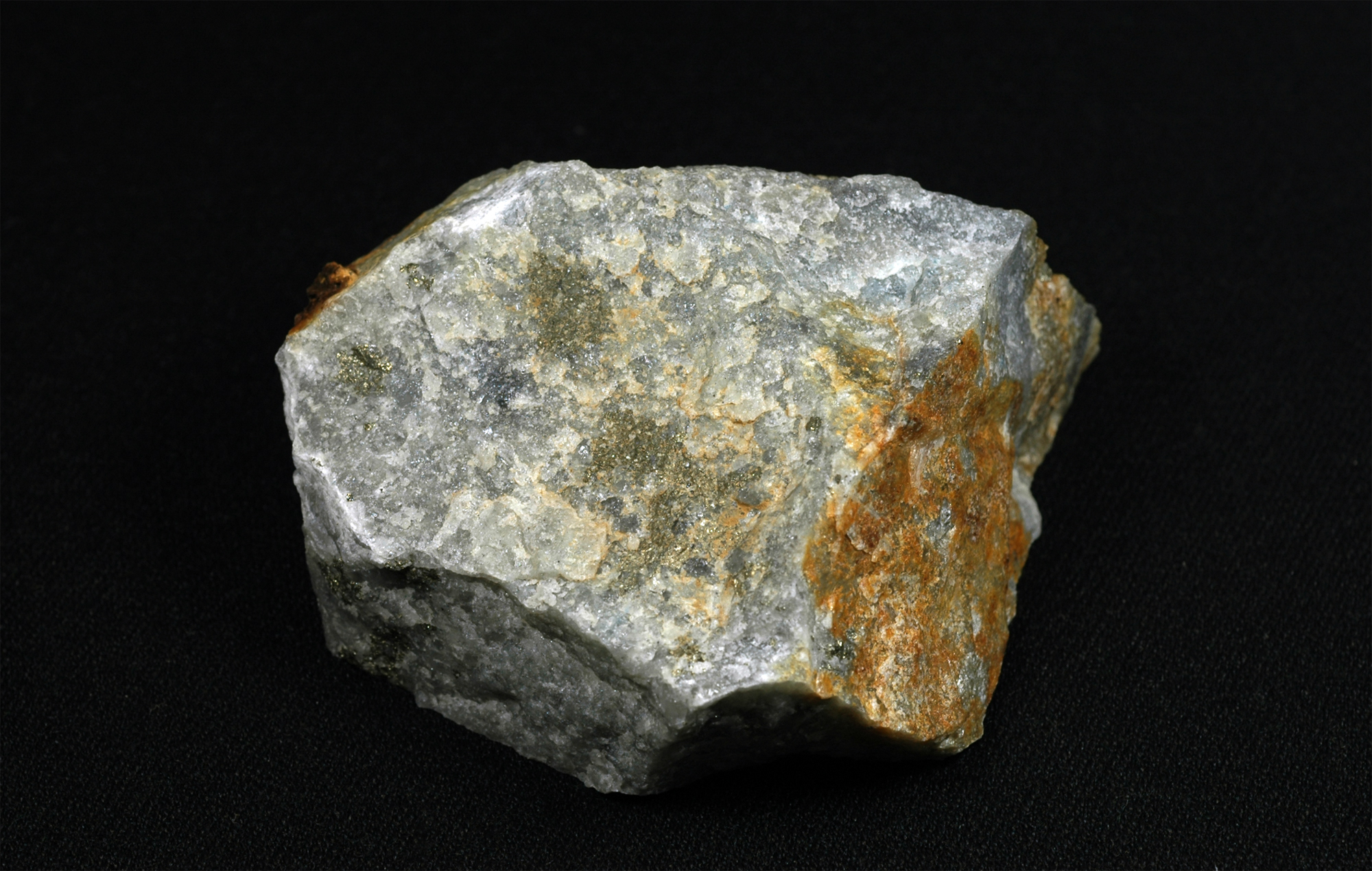 Abuite